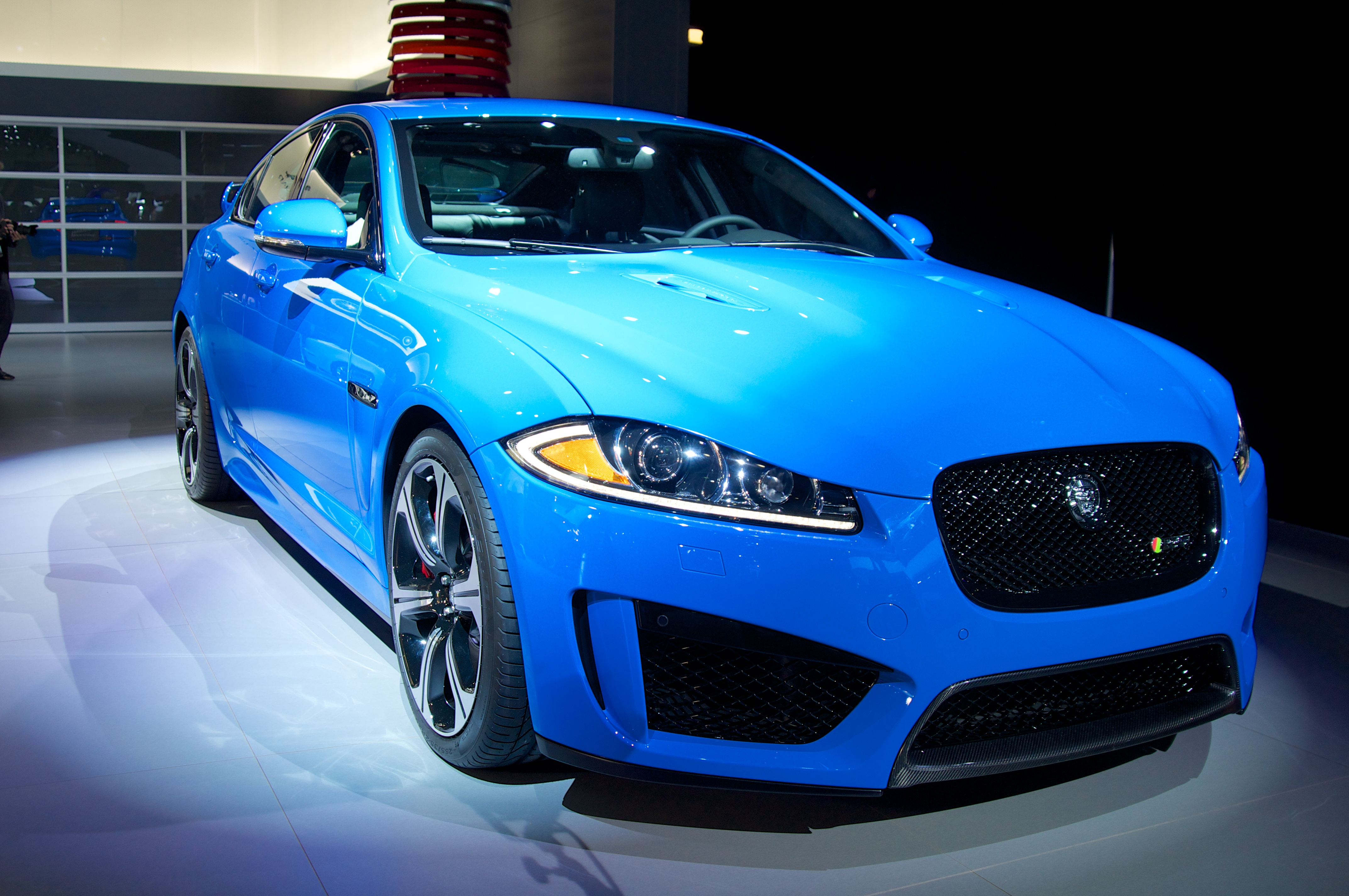 Seen at the 2012 Los Angeles Auto Show. Press day - Wednesday, November 28th. If you use one of my photos, please be so kind as to attribute me and link back to the photo's page. THANK YOU!